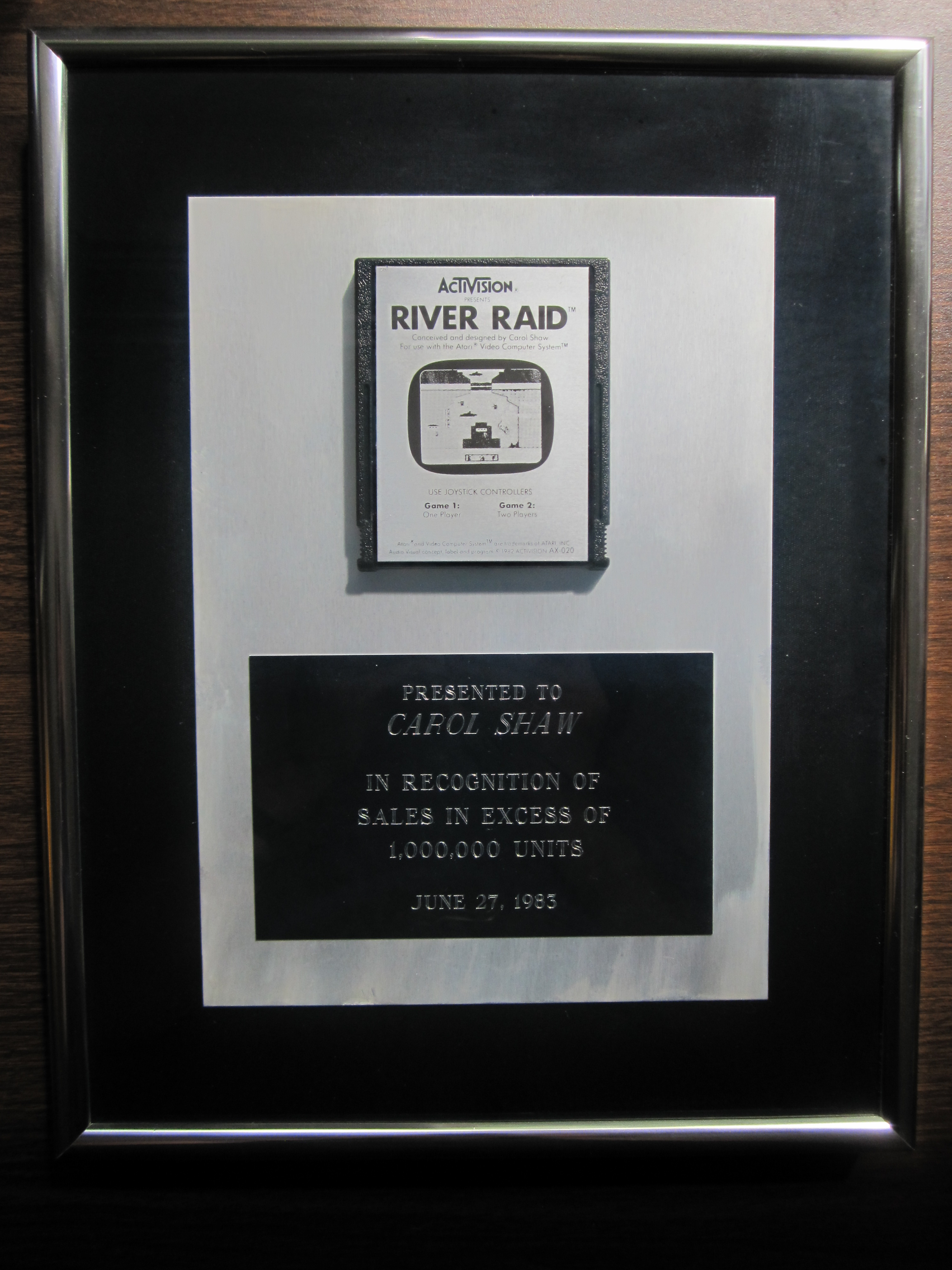 A photograph of the framed platinum River Raid video game cartridge "presented to Carol Shaw in recognition of sales in excess of 1,000,000 units June 27, 1983".